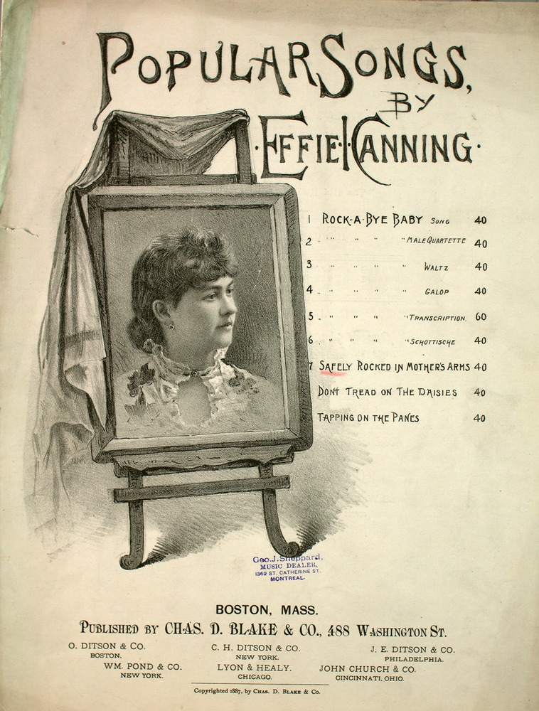 Rock a Bye Baby by Effie Channing or Crockett